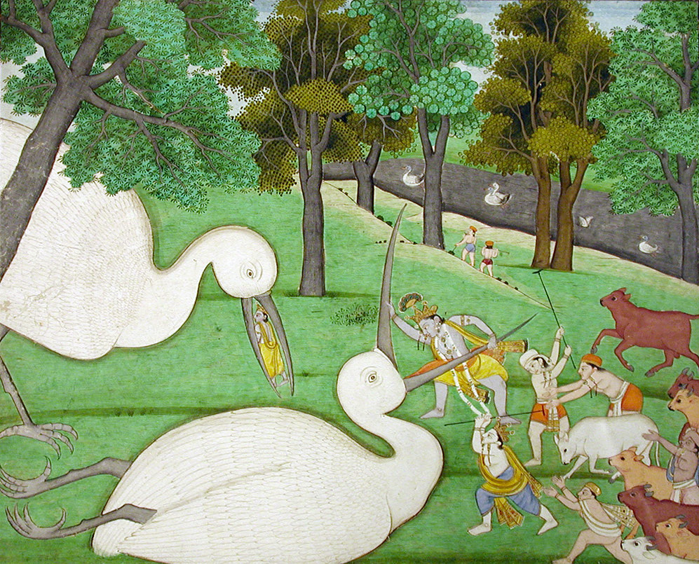 Series Title: The Ancient Text of the Lord Suite Name: Bhagavata Purana Creation Date: 1850 Display Dimensions: 9 21/32 in. x 11 17/32 in. (24.5 cm x 29.3 cm) Credit Line: Edwin Binney 3rd Collection Accession Number: 1990.1309 Collection: The San Diego Museum of Art